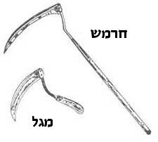 Sickle and scythe with labels.